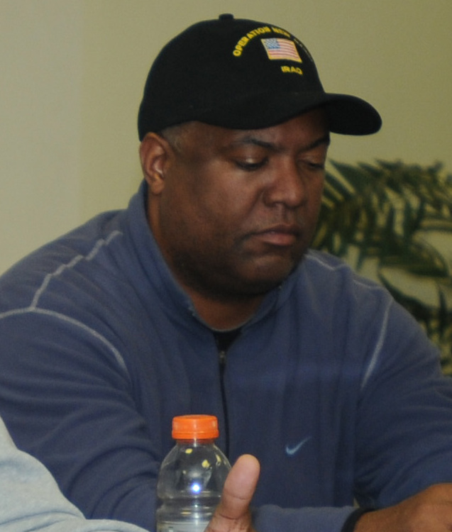 (Left to right) Antonio Freeman, former Green Bay Packers wide receiver, LaVar Arrington, former Washington Redskins linebacker, and Rodney Peete, former Philadelphia Eagles quarterback, talk with service members about their experiences with the military and the NFL as a part of the players and coaches interview during Tostitos "Connect to Home Bowl" a joint effort with the United Service Organization at Joint Base Balad, Iraq, on Dec. 20. Arrington went into depth about his experience as a linebacker and how he played each down like it was his last. "With that mentality, you do not go out there with the intention of hurting anyone, but I darn sure go out there with the intentions of impacting everyone’s life that is out there on the field with me, especially who is on the other side of the ball," said Arrington.